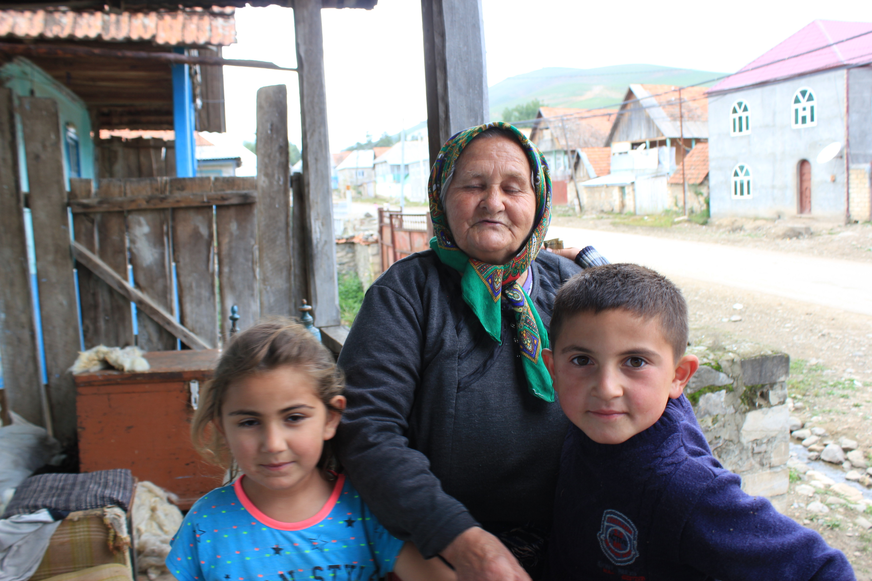 Novoivanovka in Azerbaijan - people